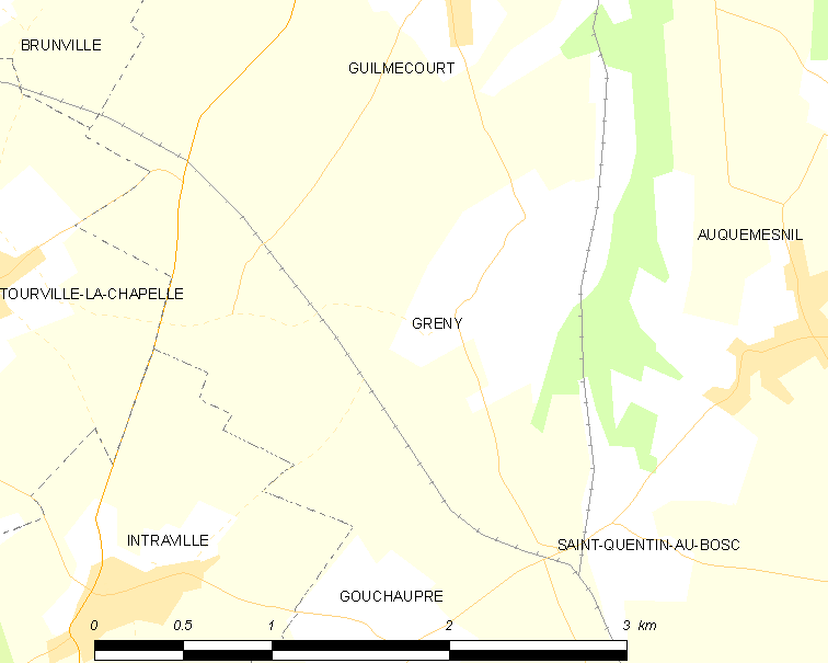 Map of French municipality Greny